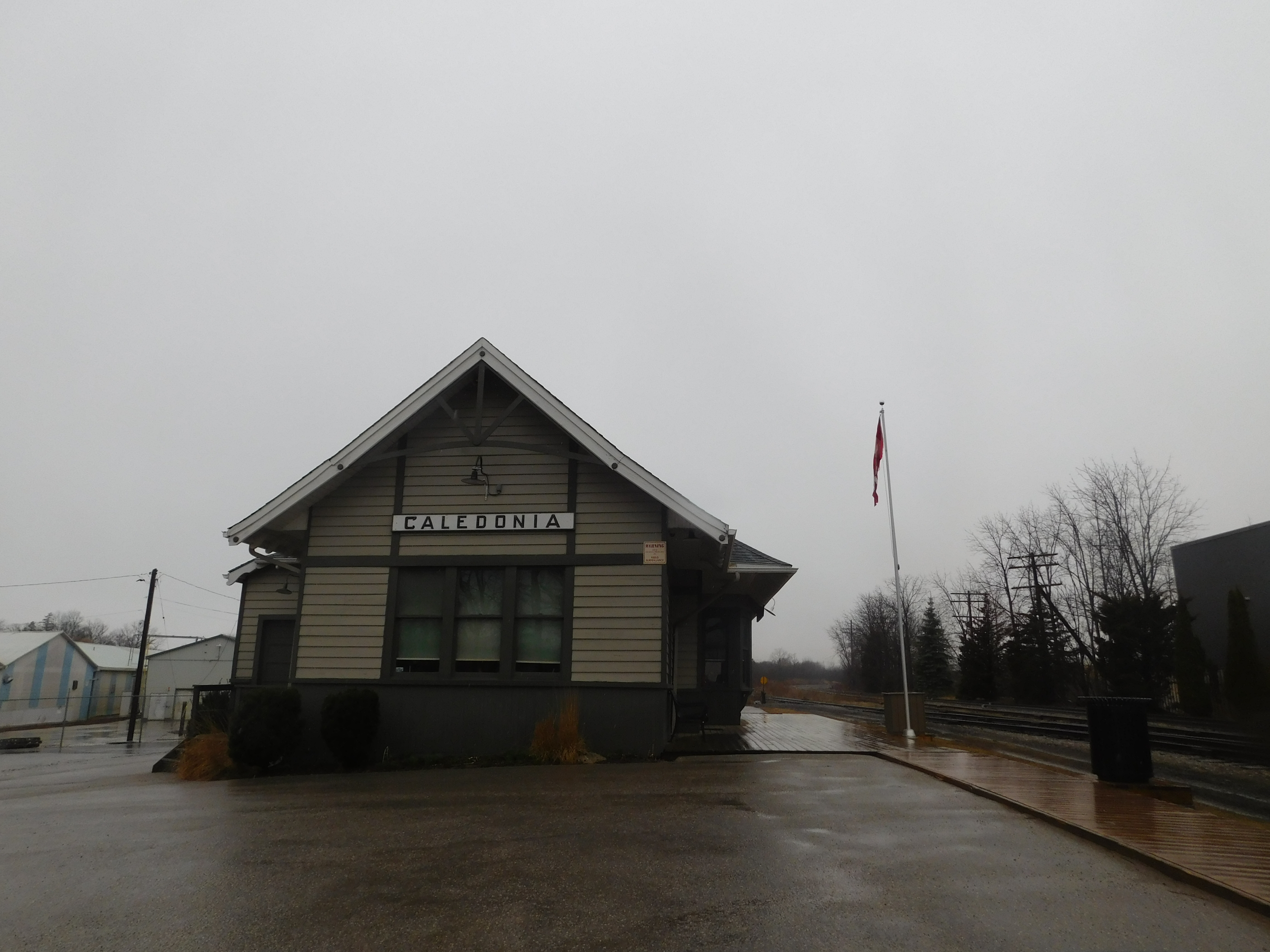 The former Grand Trunk Railway station in Caledonia, Ontario in March 2019.